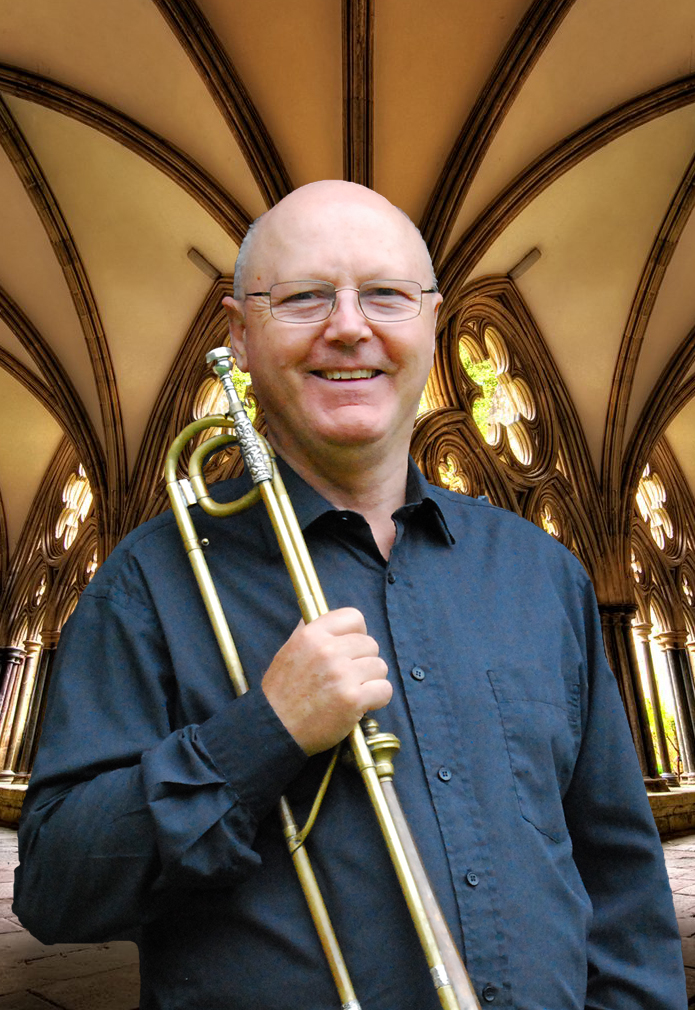 Crispian Steele-Perkins holding a trumpet in the cloister of Salisbury Cathedral